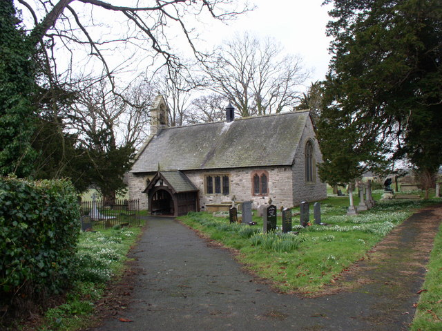 Church of St Hychan. One of only two churches dedicated to the 5th century St. Hychan, this ancient single chamber church is mentioned in the Norwich Taxation of 1254. It was extensively restored in 1878.